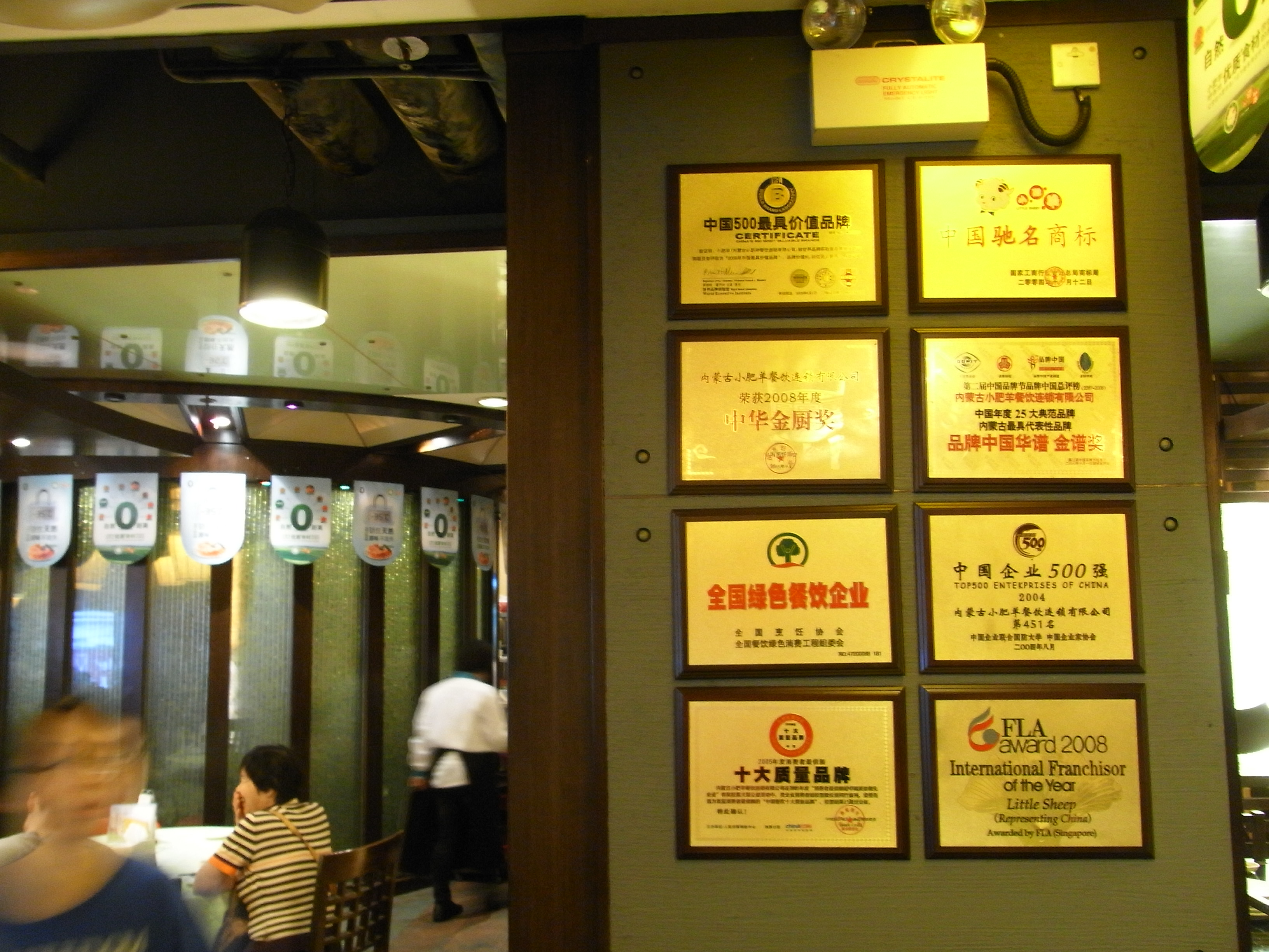 小肥羊, Little Sheep Group, Tsim Sha Tsui, Hong Kong